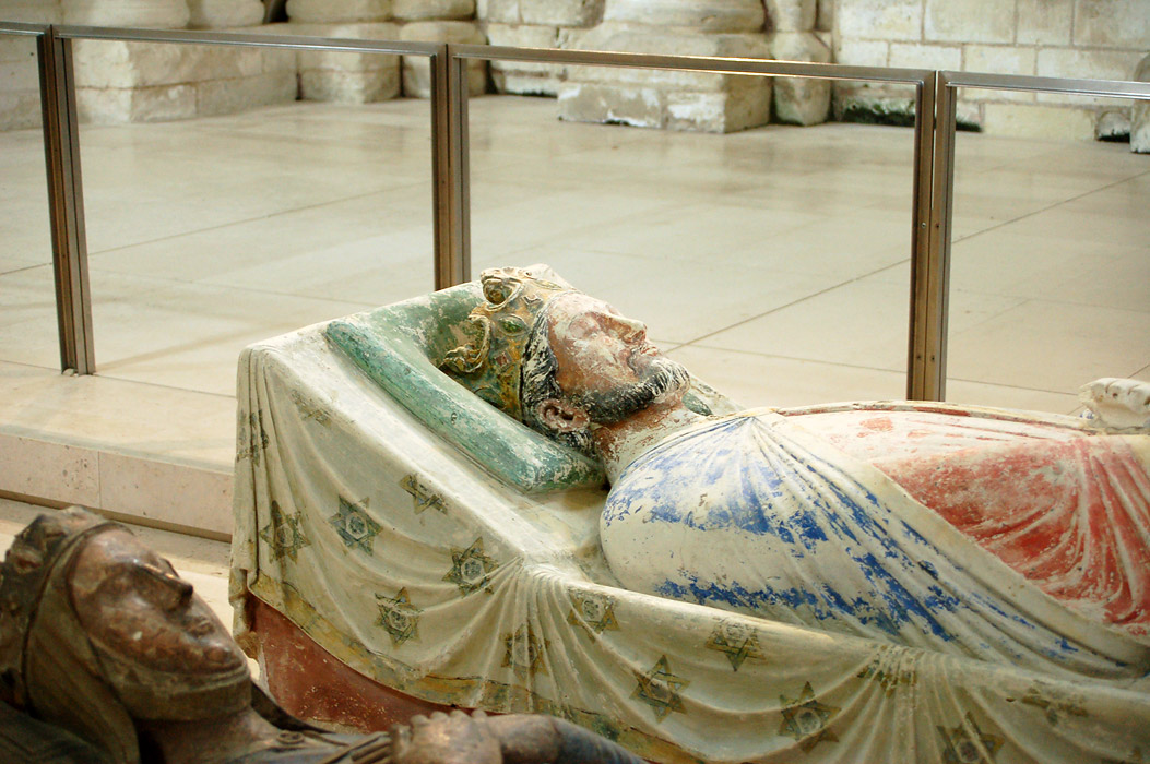 Tomb effigies of Richard the Lionheart and his sister in law Isabella of Angoulême, in Fontevraud Abbey.